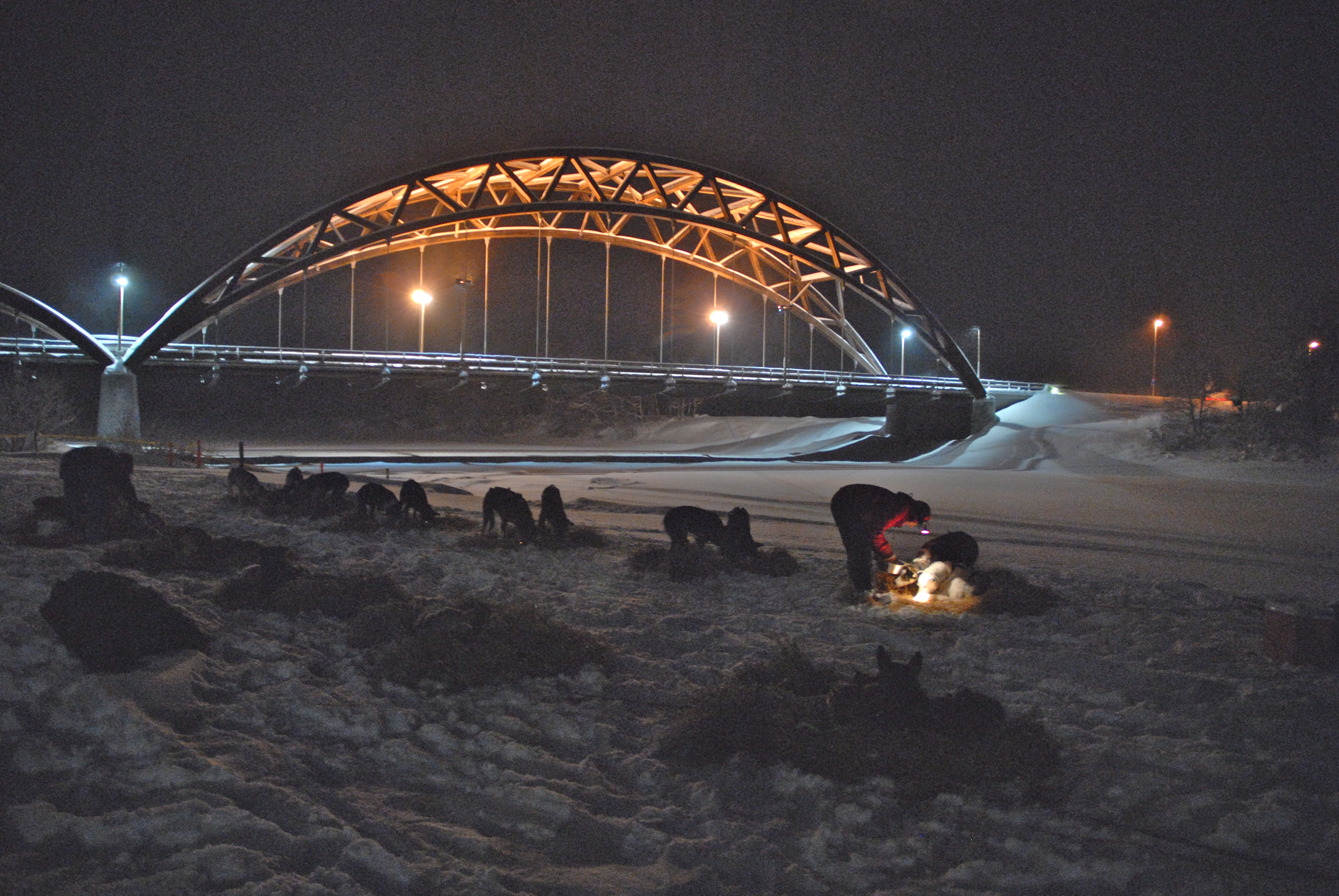 Photo: ScottPhoto